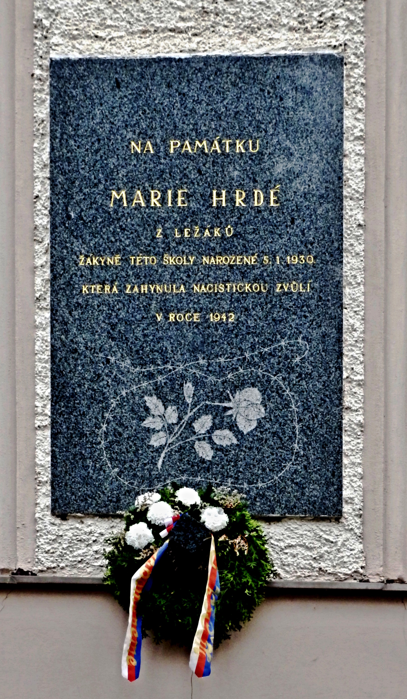 "Marie Hrdá", memorial plaque of former schoolgirl of the school in Skuteč. Photo location - Czechia, Skuteč, Komensky Square.